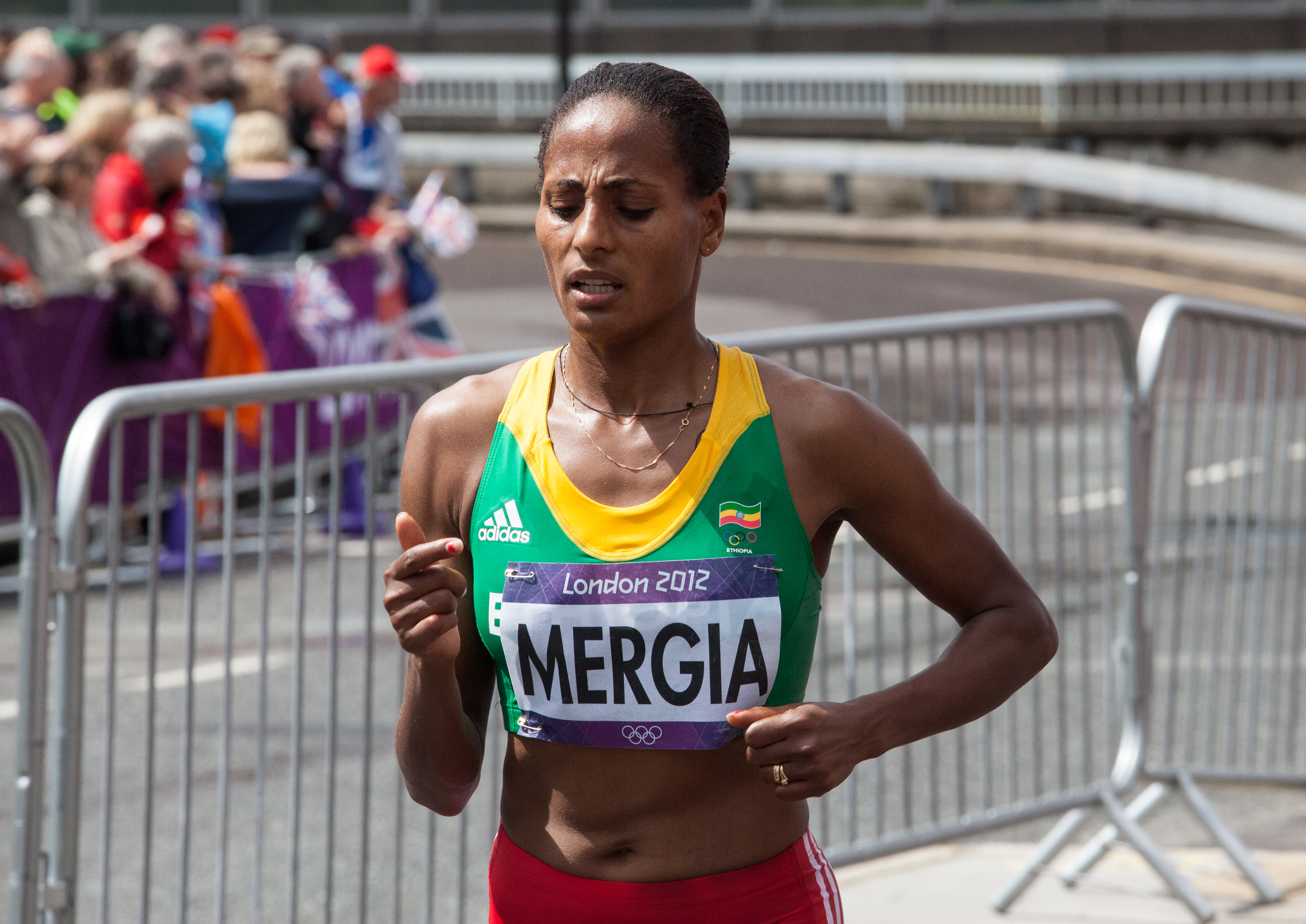 The women's marathon at the 2012 Olympic Games in London was held on the Olympic marathon street course on 5 August 2012.